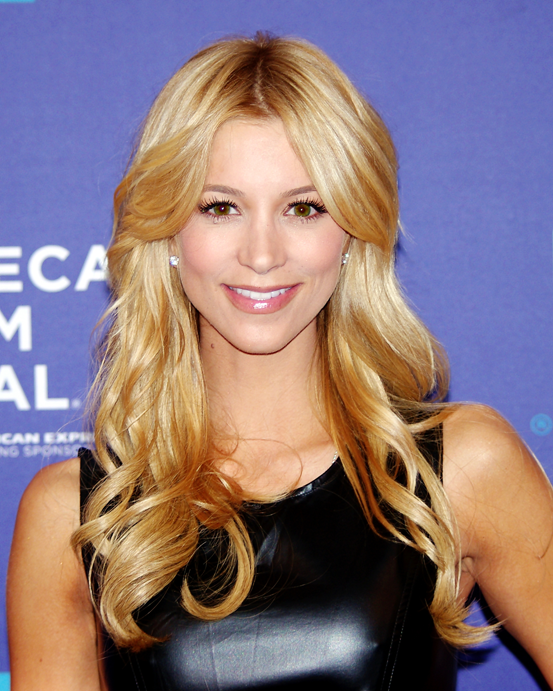 Sabina Gadecki at the 2012 Tribeca Film Festival premiere of Freaky Deaky.